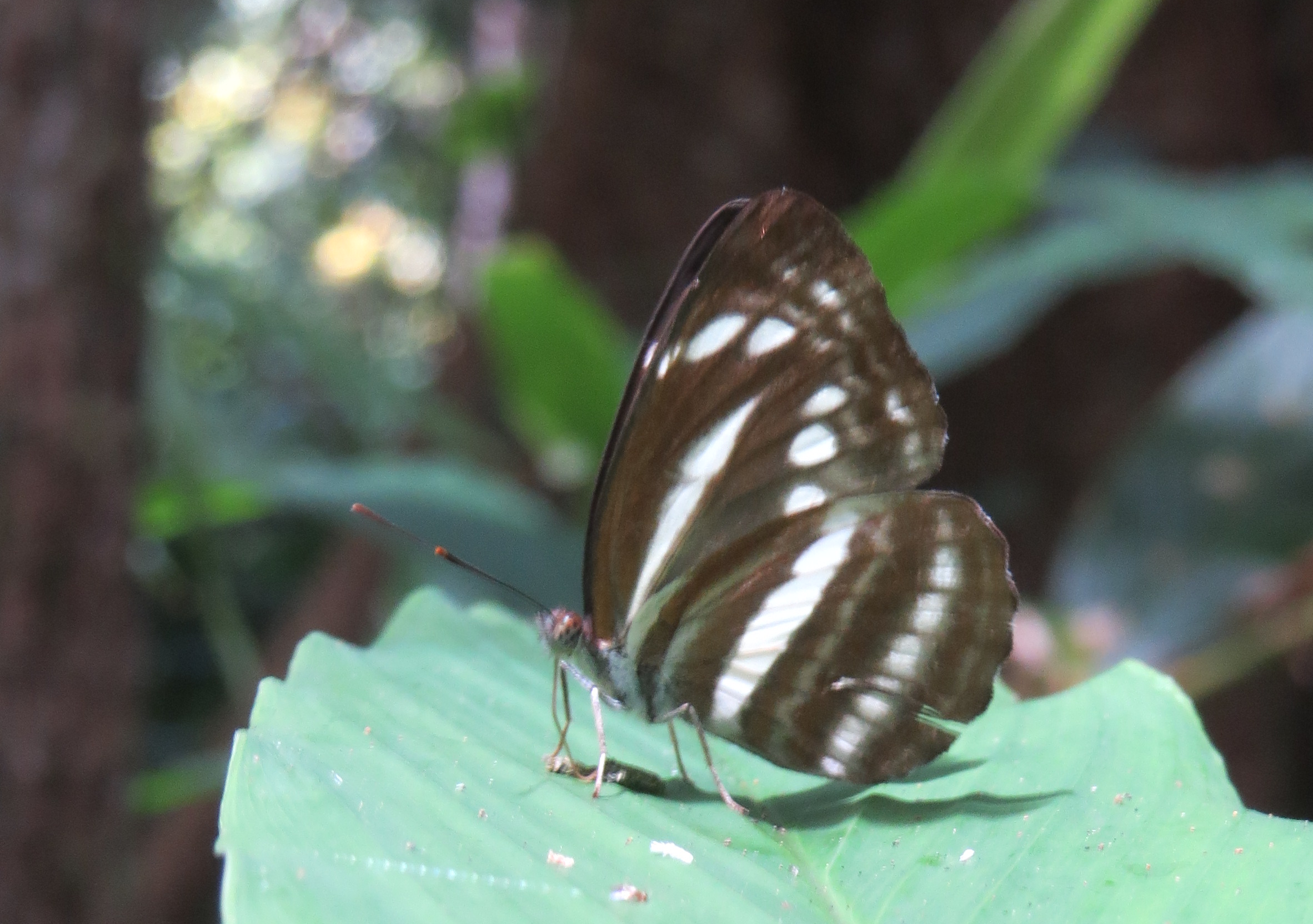 Photos from Parambikulam Tiger Reserve and its Pooppara section during the Butterfly Survey 2016